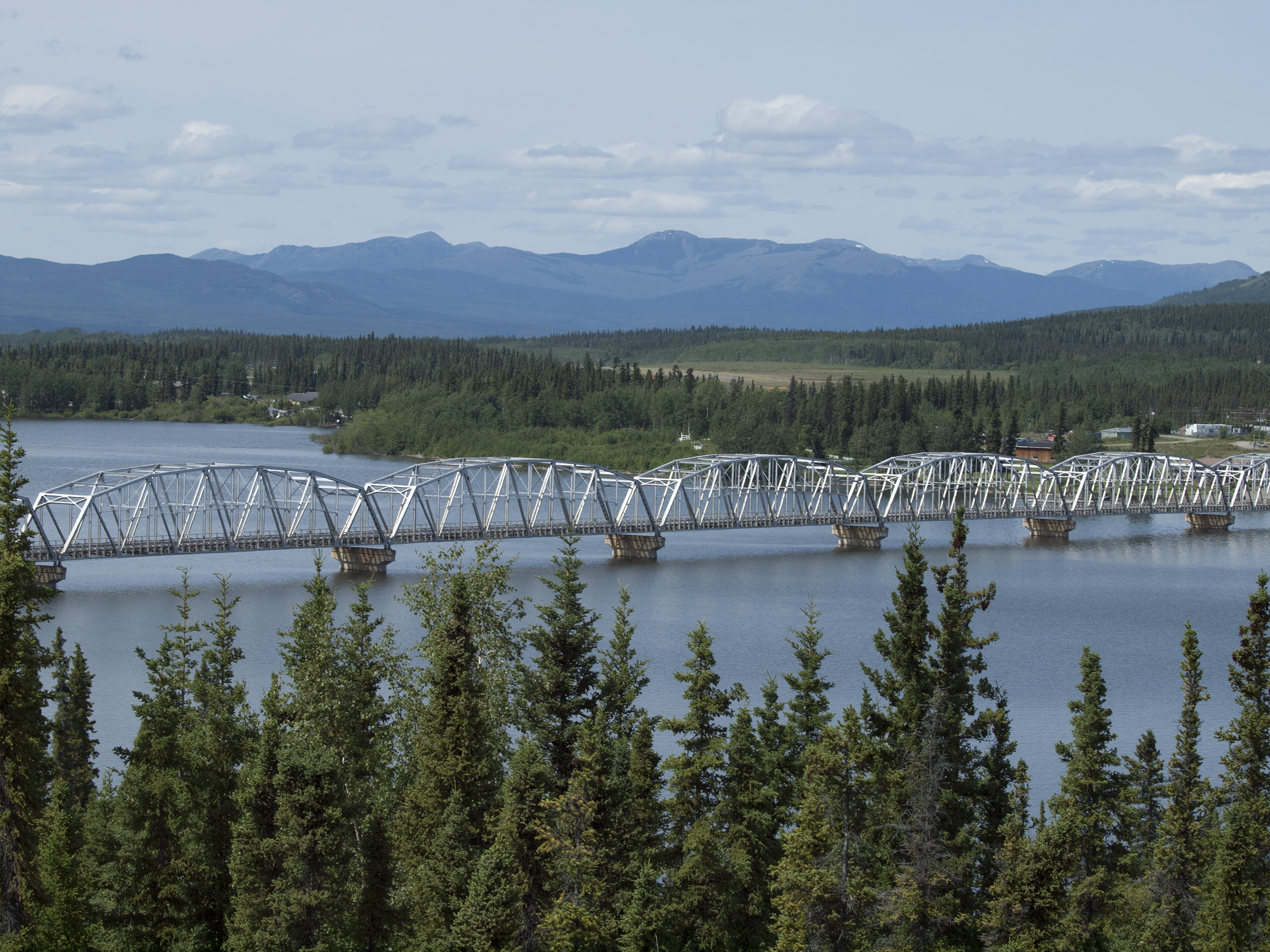 Looking northwest across the Teslin Bridge (Alaska Highway 1) and Teslin Plateau, Yukon